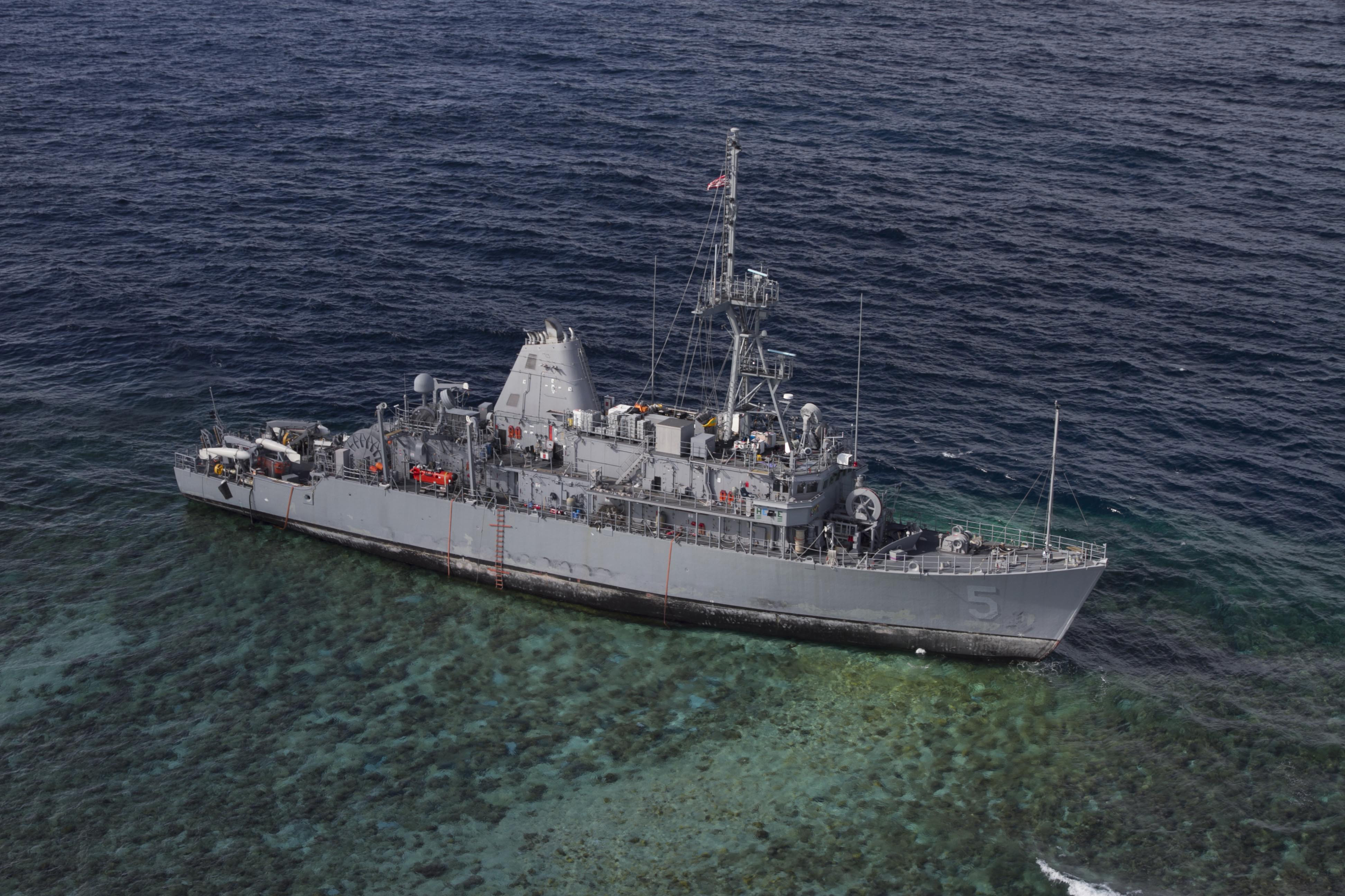 SULU SEA, Philippines (Jan. 22, 2013) USS Guardian (MCM 5) sits aground on the Tubbataha Reef. Operations to safely recover the ship while minimizing environmental effects are being conducted in close cooperation with allied Philippines Coast Guard and Navy.